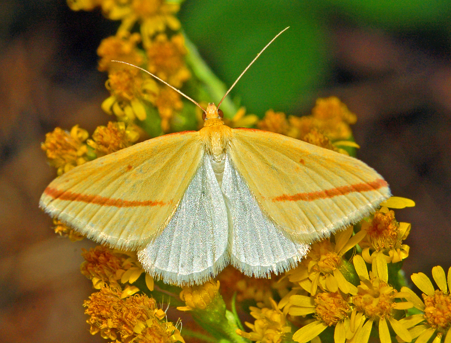 Rhodometra sacraria, female. Dorsal view